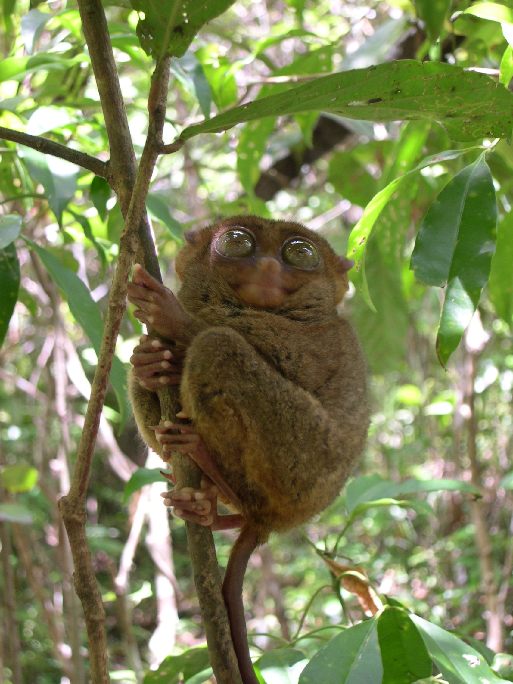 A Philippine Tarsier (Carlito syrichta) in the Philippine Tarsier Sanctuary at Corella, Bohol, Philippines Picture taken by Magalhães the 26th of March 2006